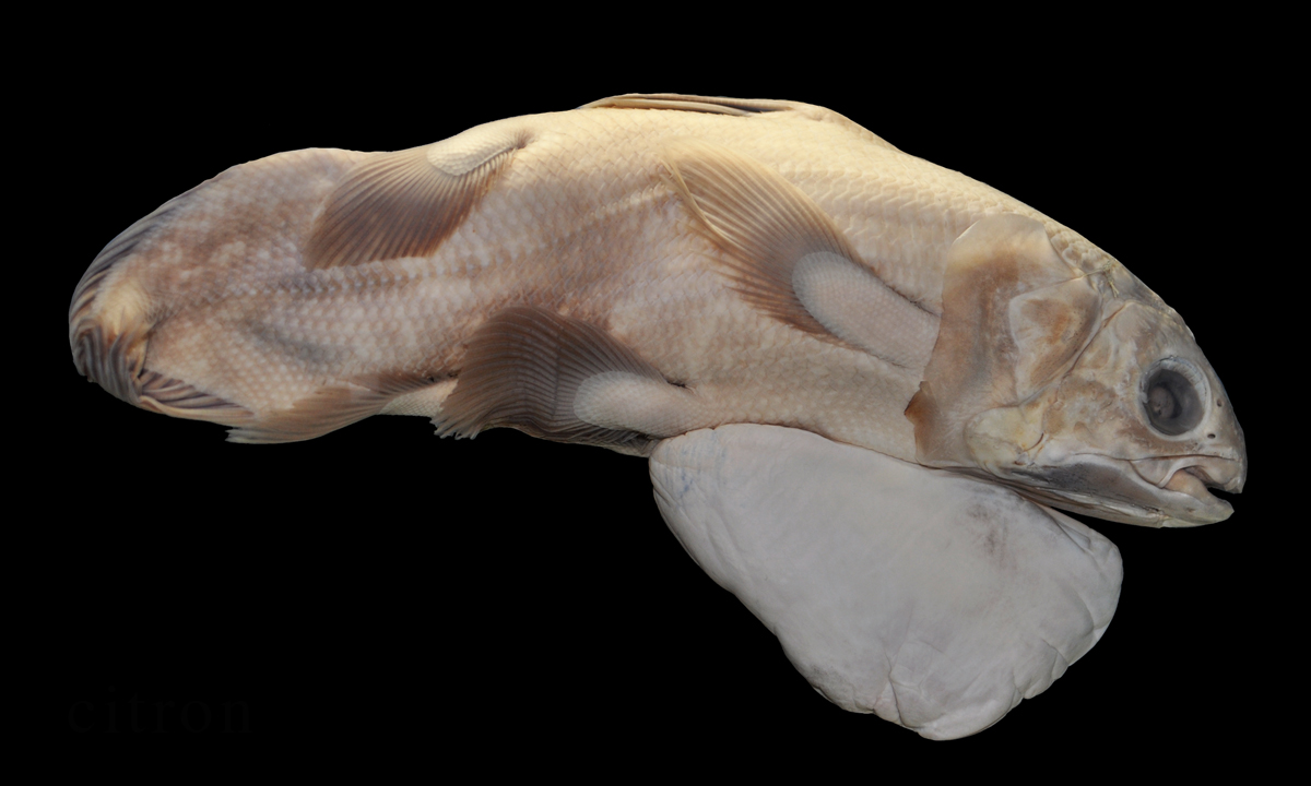 Coelacanth (Latimeria chalumnae) embryo with its yolk sac from the Muséum national d'histoire naturelle (Paris, France).